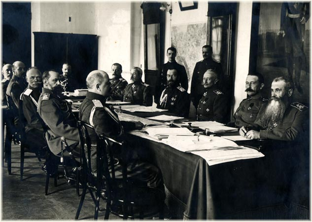 Russian High Command during WWI. General Ivanov (on the right corner in a long beard), general V.N. Klembovsky, general Brusilov (white moustache), Tsar Nicholas II (in the center), general Kuropatkin, general Sievers, general Pustovoitenko, war minister Shuvayev, , general Alekseyev, general Evert, .